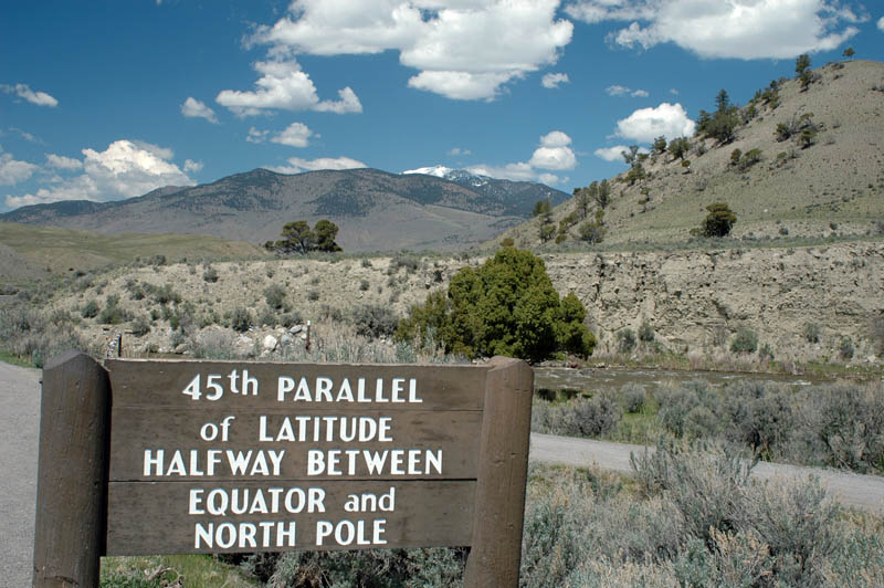 Photo by Mike DeLeonardis (